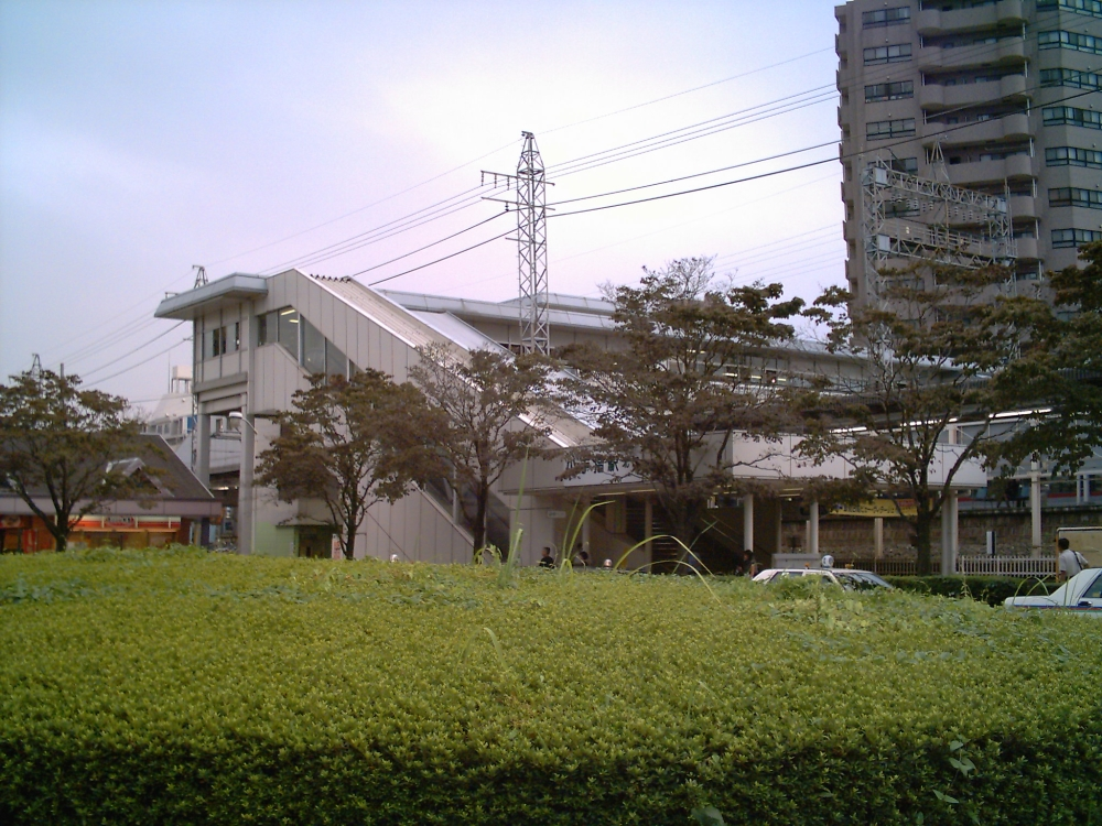 The north entrance of Kotesashi Station in Tokorozawa, Saitama Prefecture, Japan